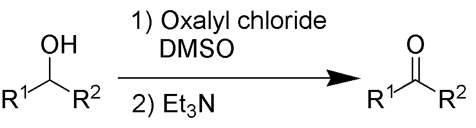 Description: Reaction scheme of the Swern reaction. Author, date of creation: selfmade by ~K, 15 October 2005. Source: - Copyright: Public domain. (PD) Comments: high-resolution b/w PNG; ChemDraw / The GIMP.